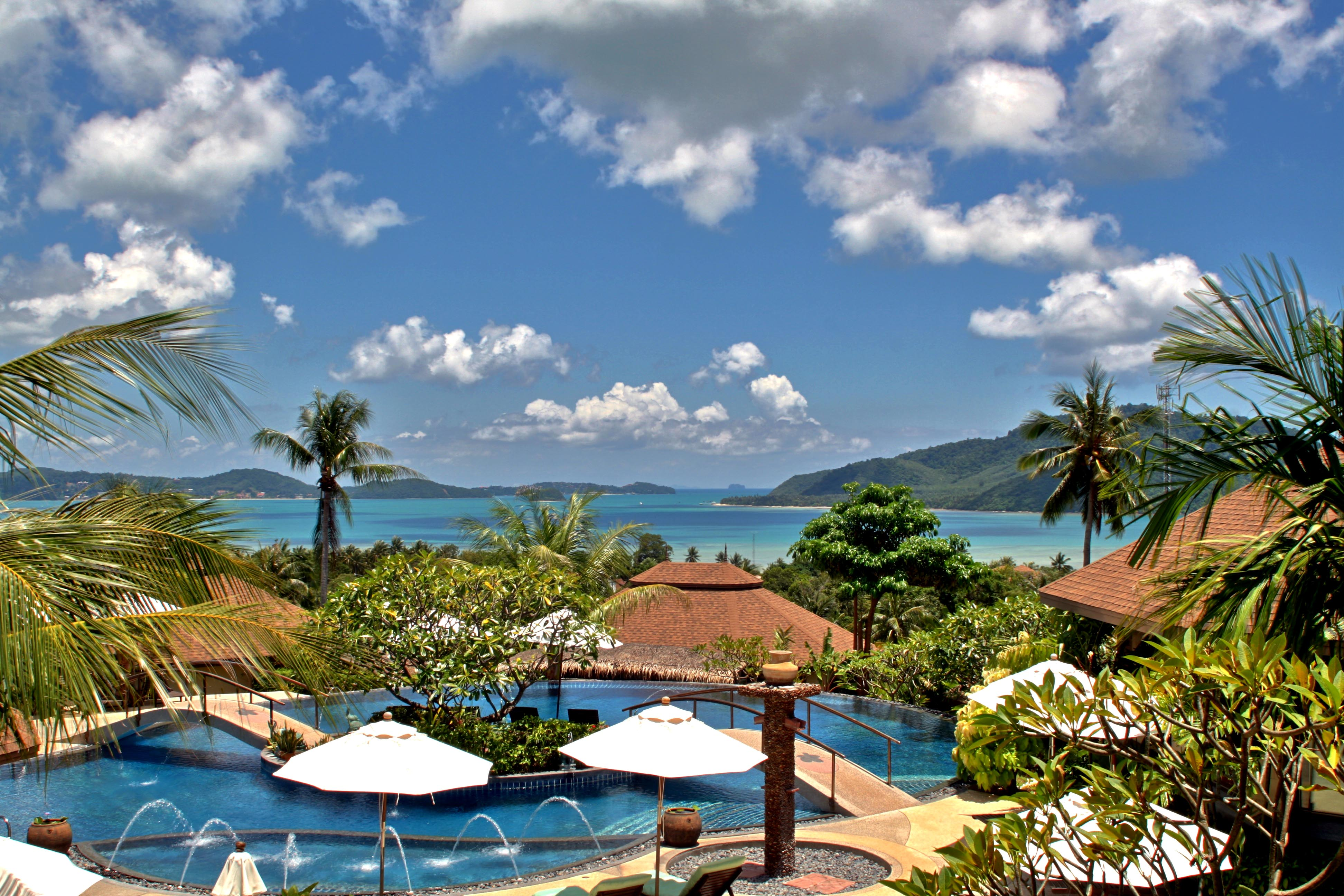 Golden Tulip Phuket Resorts: Mangosteen Boutique Resort